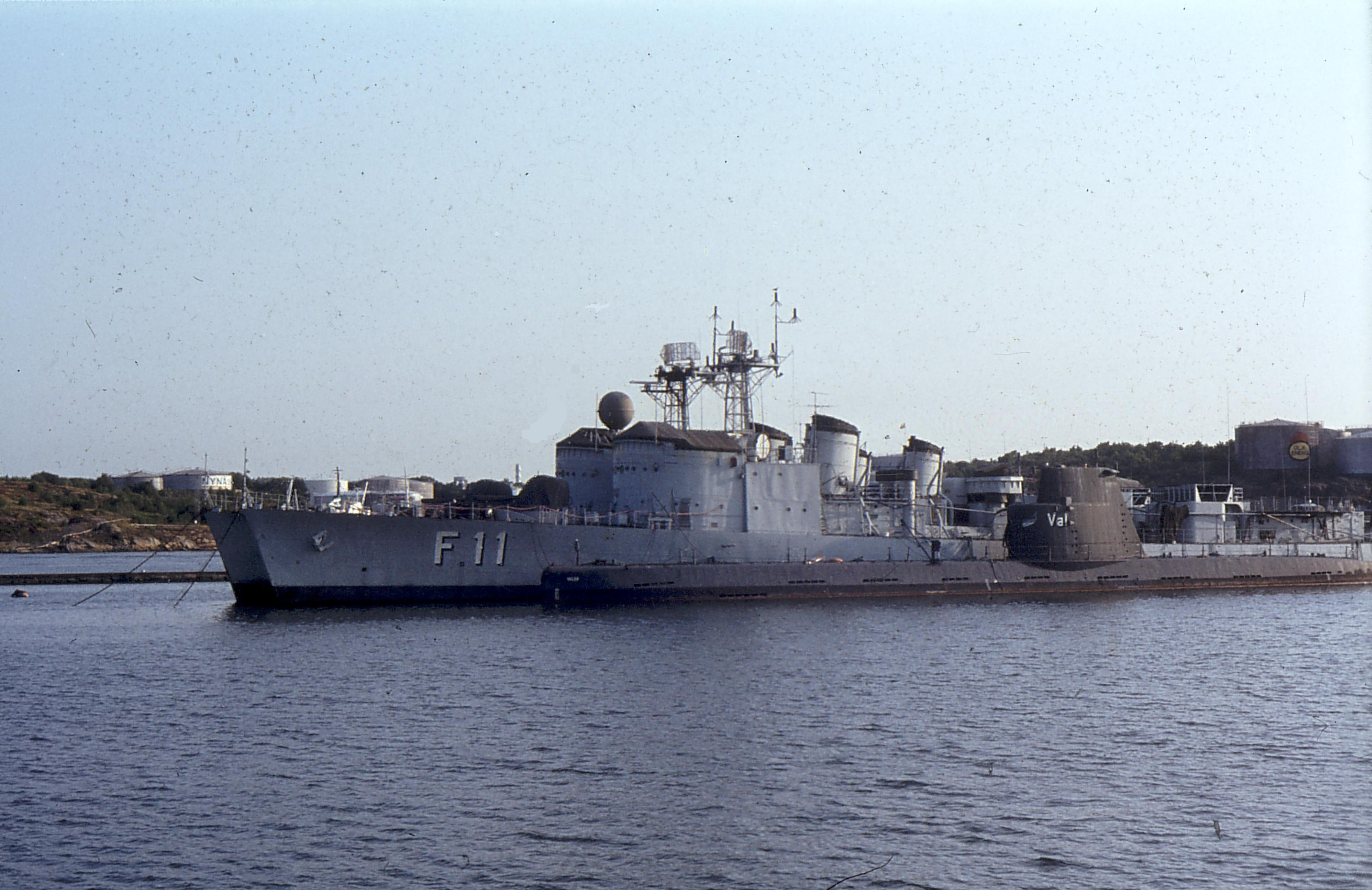 Disbanded naval vessels at Nya Varvet Navalbase in Gothenburg, Sweden summer 1982. Submarine HMS Valen, and Frigates HMS Visby (F11) and HMS Sundsvall (F12)